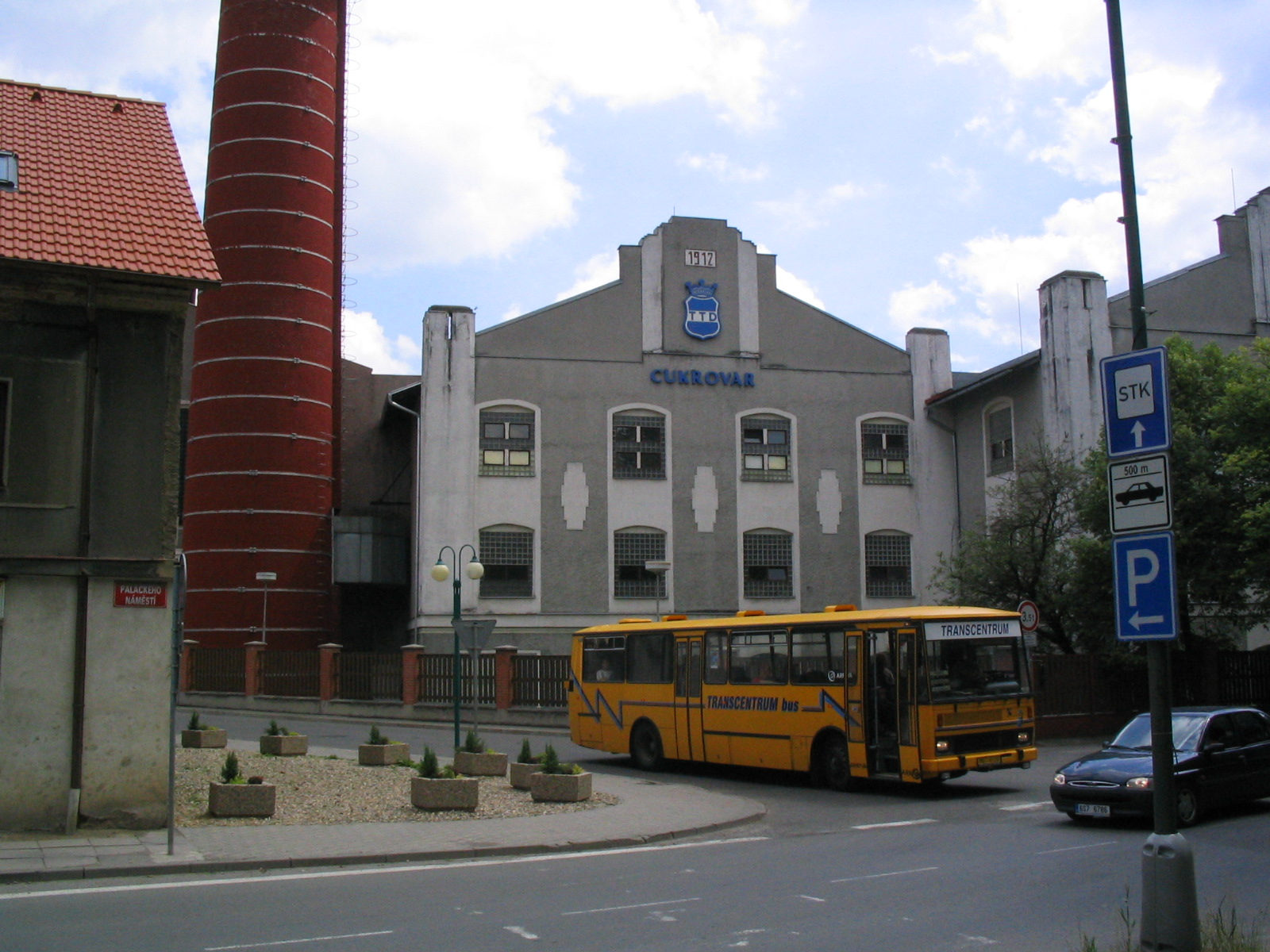 Town of Dobrovice, Czech Republic, sugar factory